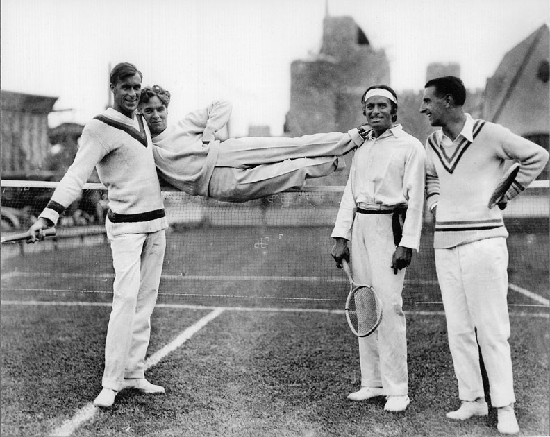 Tilden always swore he would give up tennis for a life in the theater. His favorite place to play tennis out west was Charlie Chaplin's court in the Hollywood hills, and Chaplin (horizontal) would be one of his last friends to stand by him in the end. Douglas Fairbanks (with the headband) was another close friend and tennis nut. Spanish champion Manuel Alonso accompanied Tilden on this Hollywood visit in 1923.